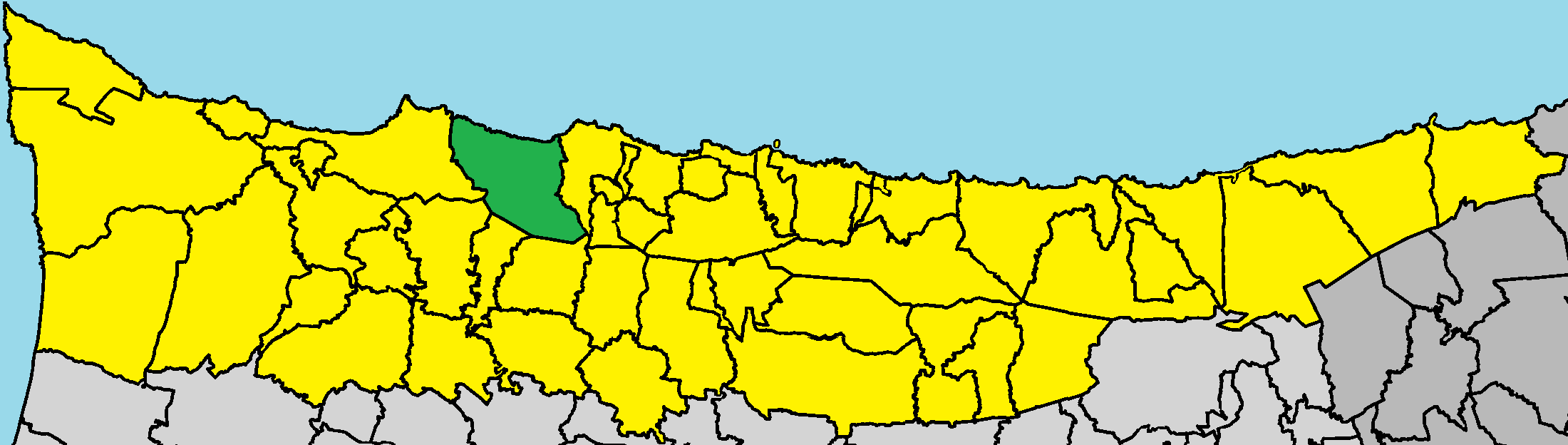 Lapithos in Kyrenia District (de jure).